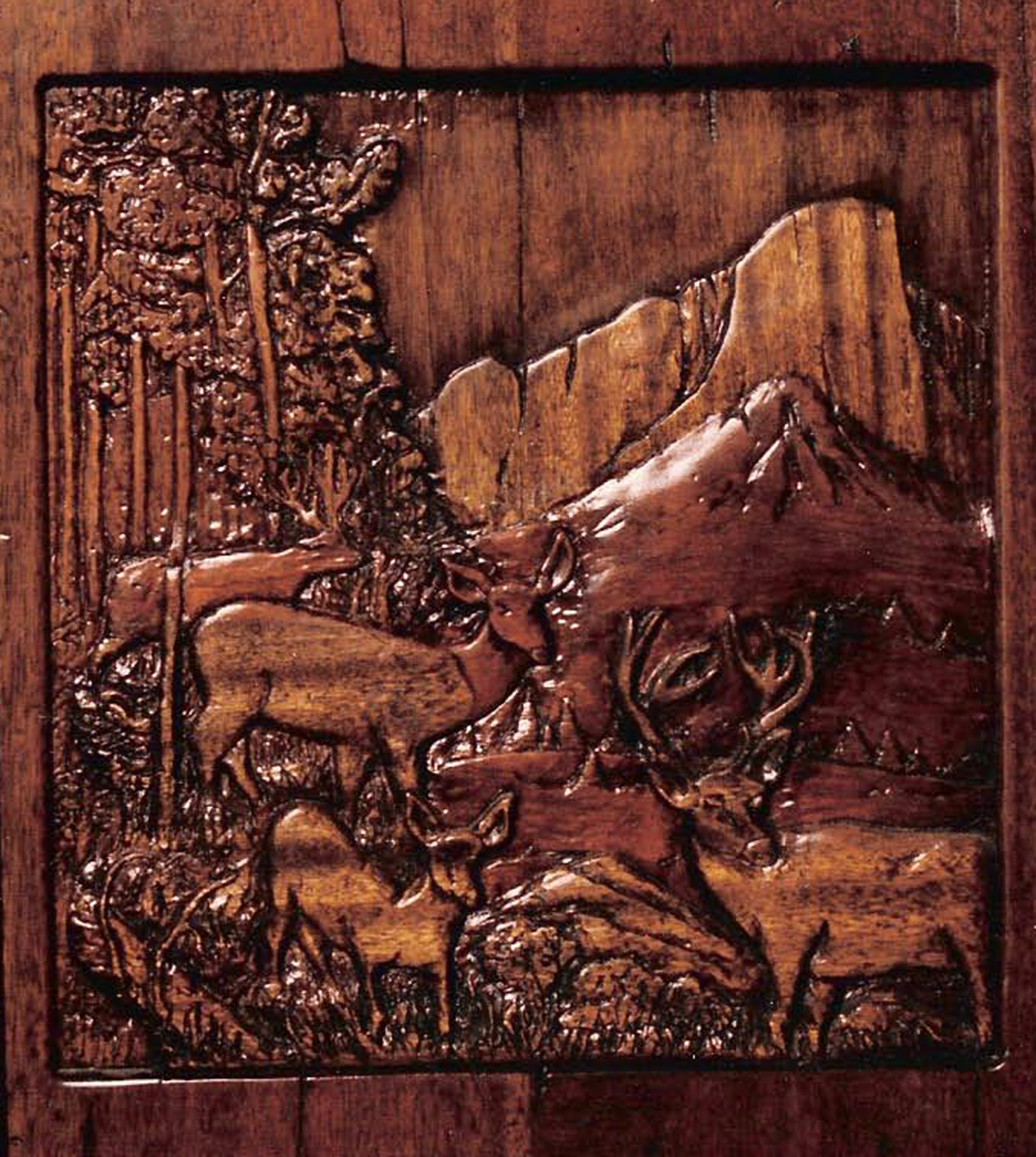 A laminated hardwood carved wooden mural by Sal Maccarone